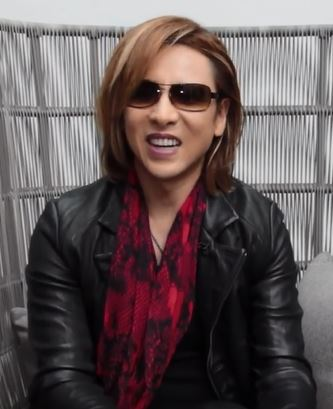 Yoshiki at Guanajuato International Film Festival